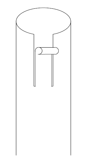 organ pipe with tuning slot